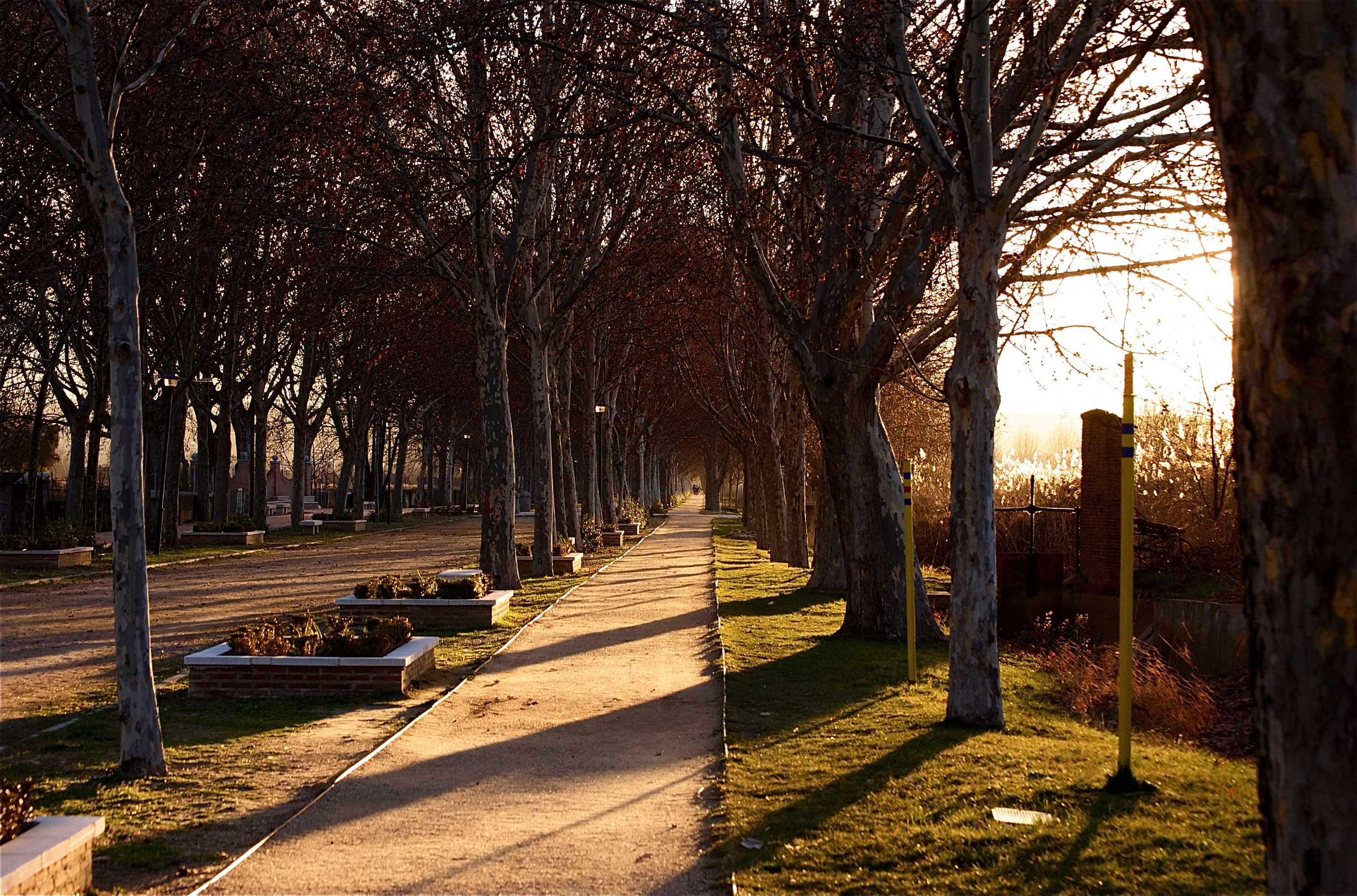 The so-called "poplar walk" in San Fernando de Henares, Madrid.